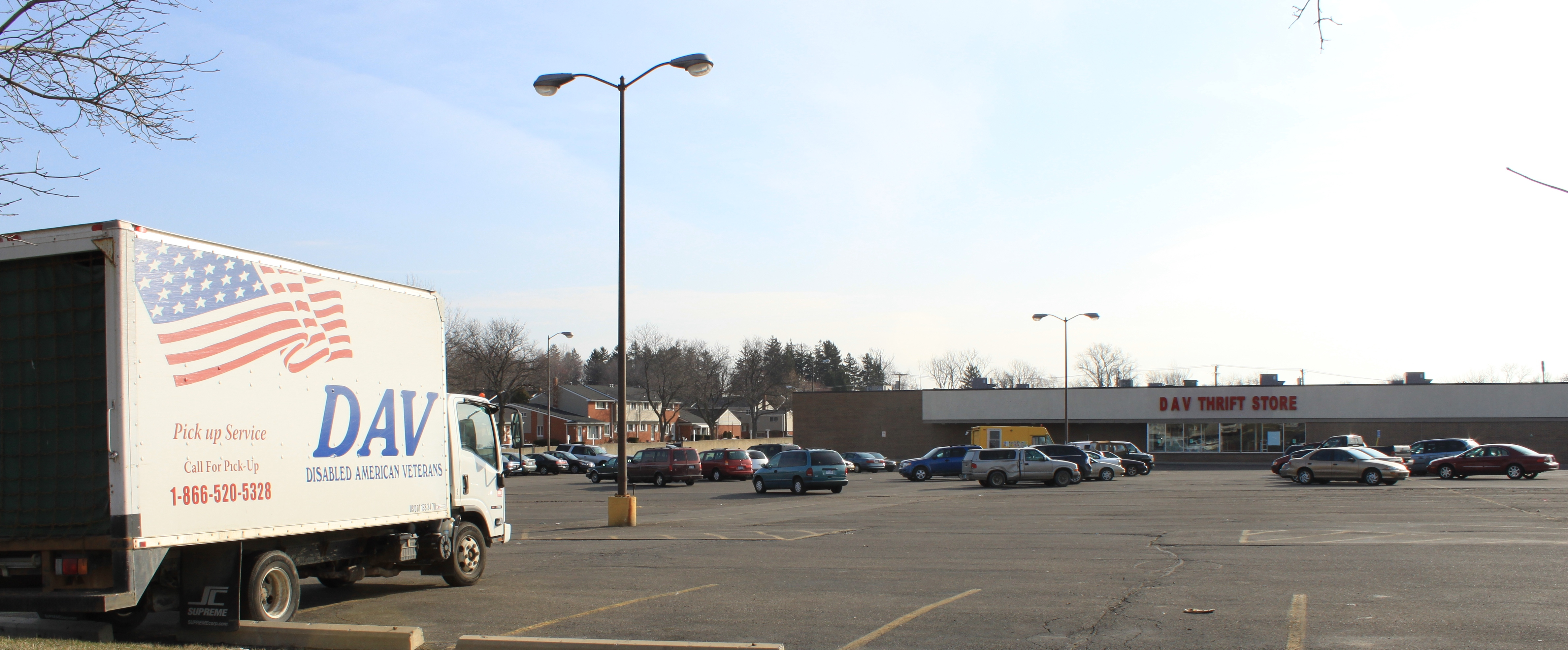 Disabled American Veterans Thrift Store, 8050 North Middlebelt Road, Westland, Michigan